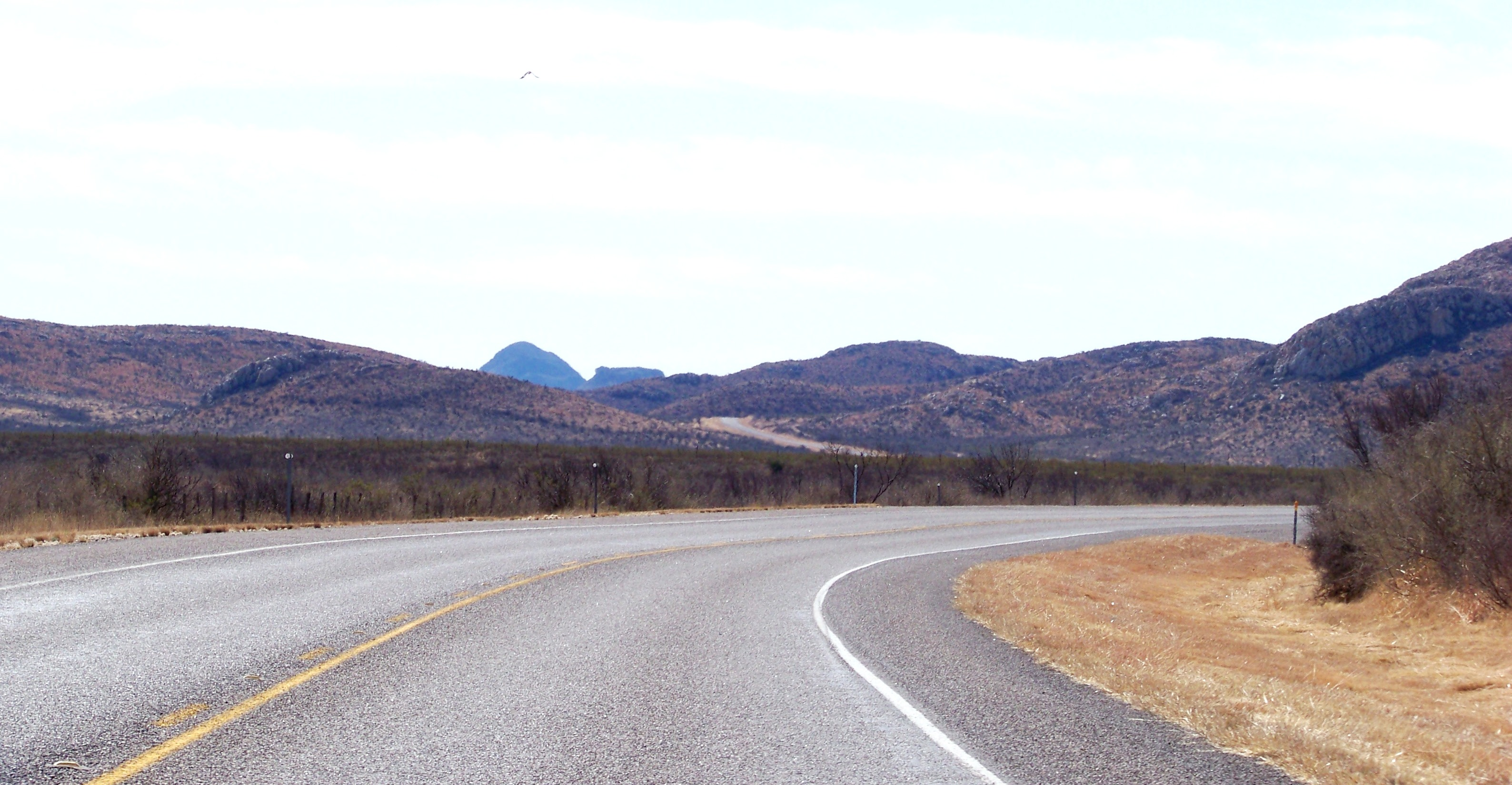 Brewster County, TX, USA